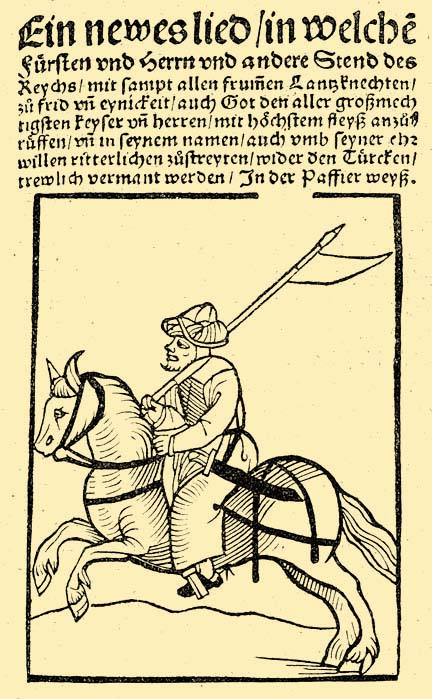 German tidings of the campaign of Suleyman I